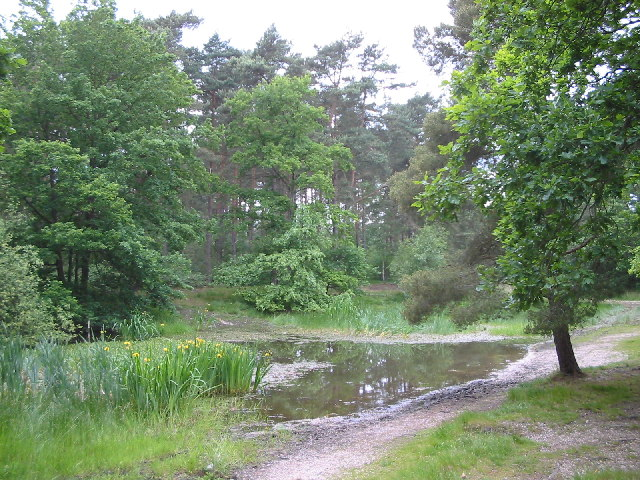 Wokefield Common. This area of woodland between Burghfield Common and Mortimer contains ponds, a nature reserve, and footpaths.